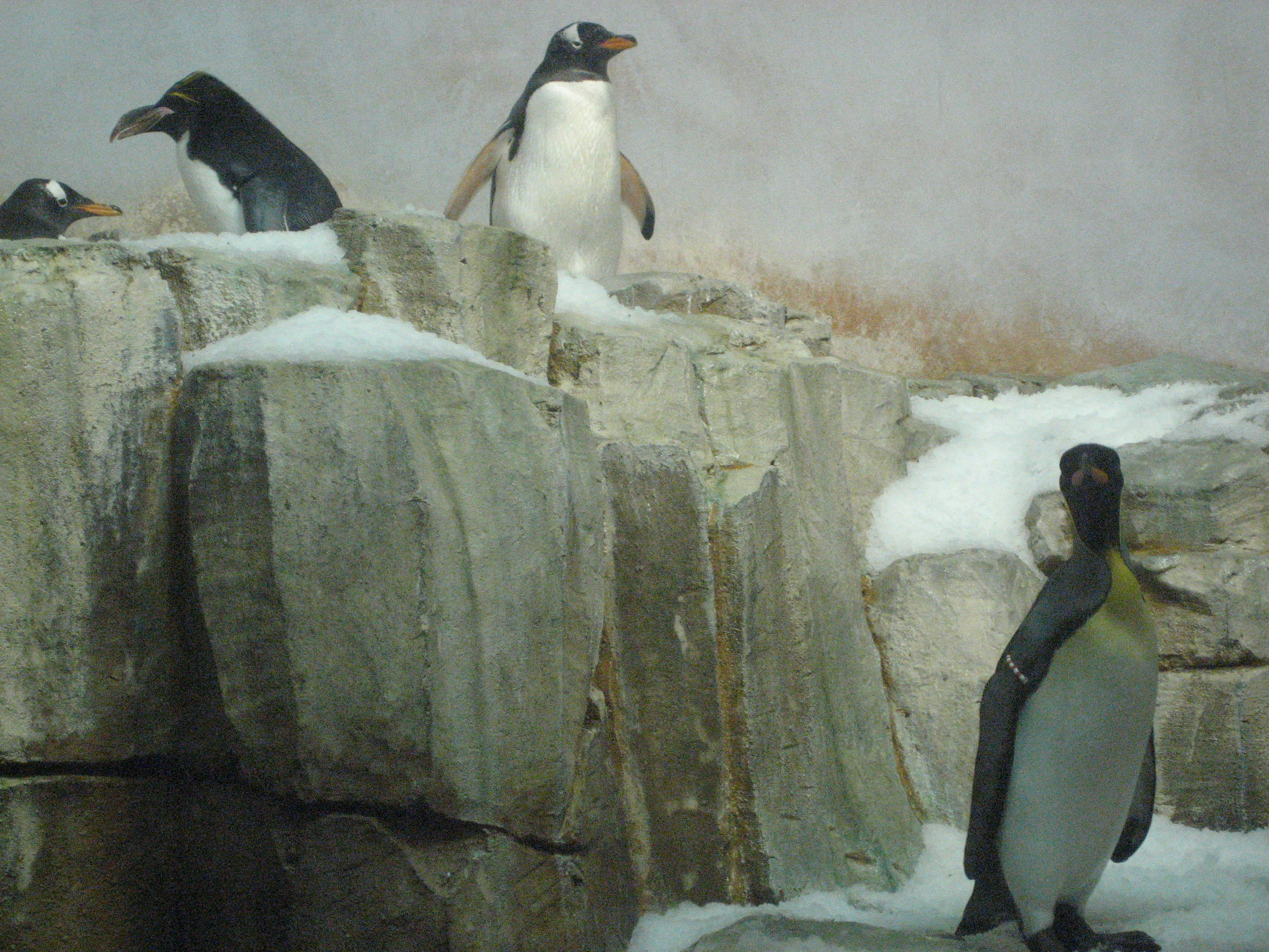 A picture I took of some penguins in the Montreal BIodome